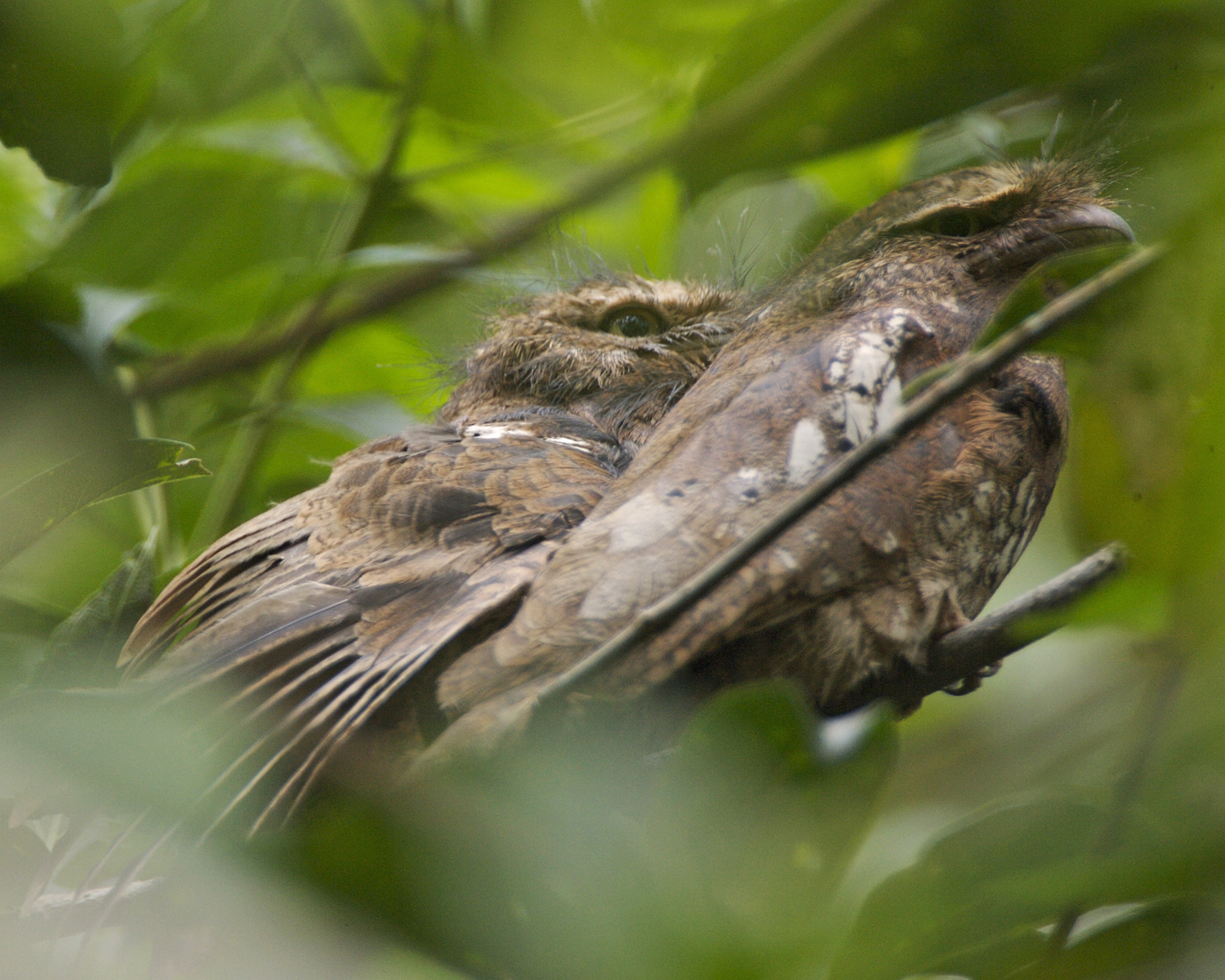 Javan Frogmouth Batrachostomus javensis Gunong Gede, Java, Indonesia 10th. August 2007 Habitat: on